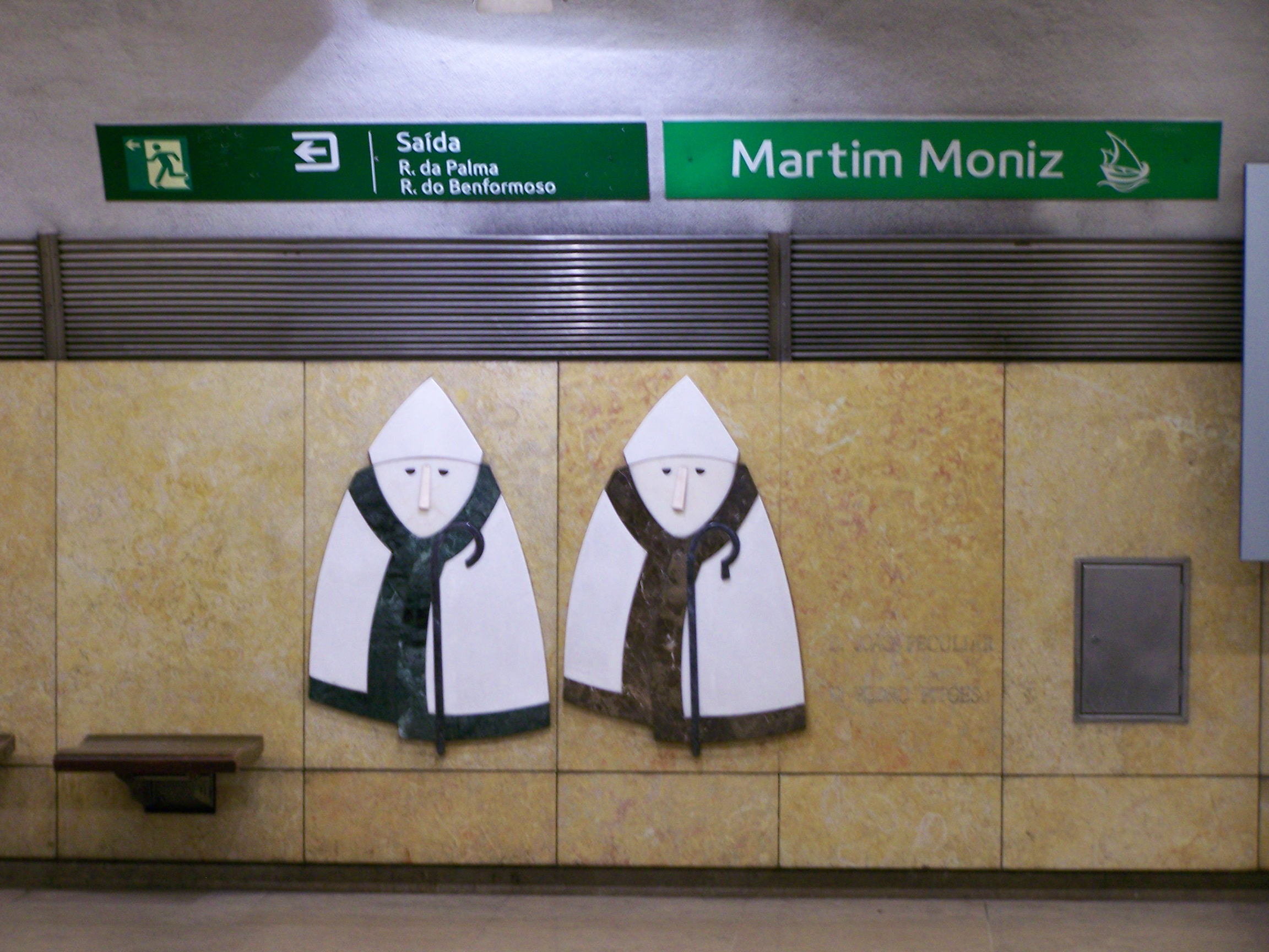 The two priests at Martim Moniz station, linha verde